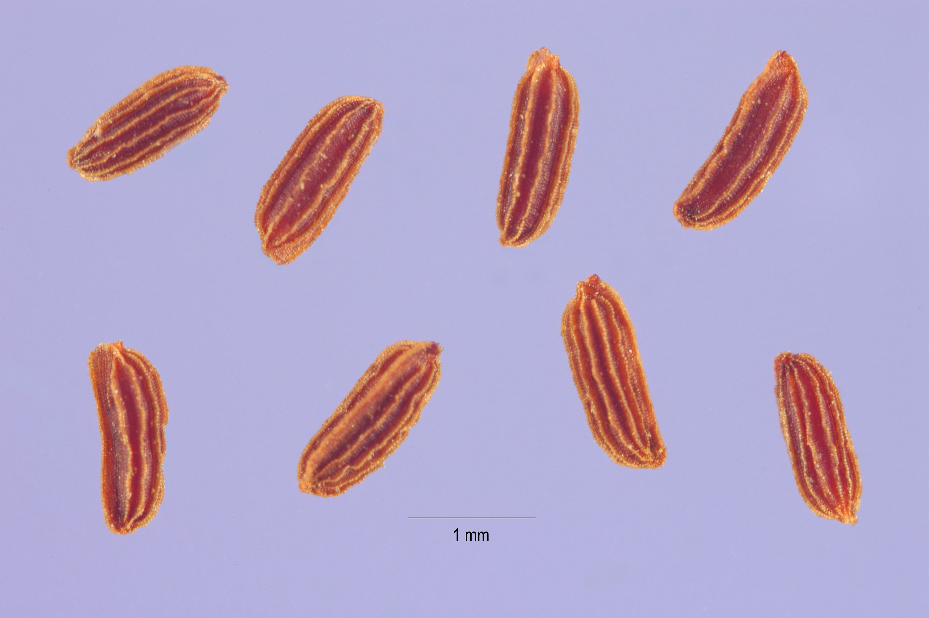 Seeds of Butomus umbellatus